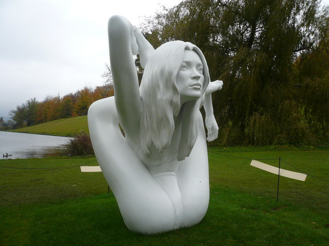 Chatsworth Gardens Myth (Sphinx) by Marc Quinn. Another of the Sotheby's 'Beyond Limits' collection.